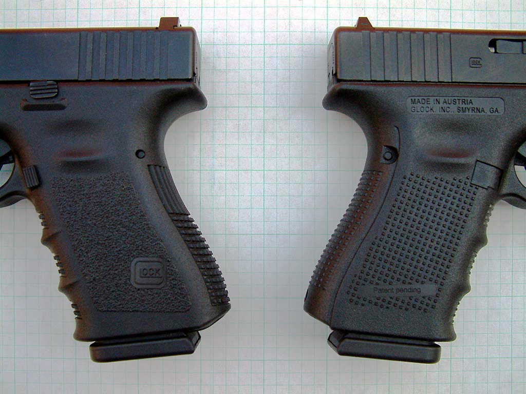 Comparison image of Generation 3 (left) and Generation 4 (right) grip frames on Glock 19 pistols. Generation 4 pistols feature a modified rough texture frame, grip checkering, and interchangeable backstraps of different sizes.